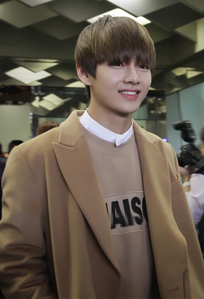 V (Kim Tae-hyung) at Taiwan Taoyuan International Airport on March 7, 2015.